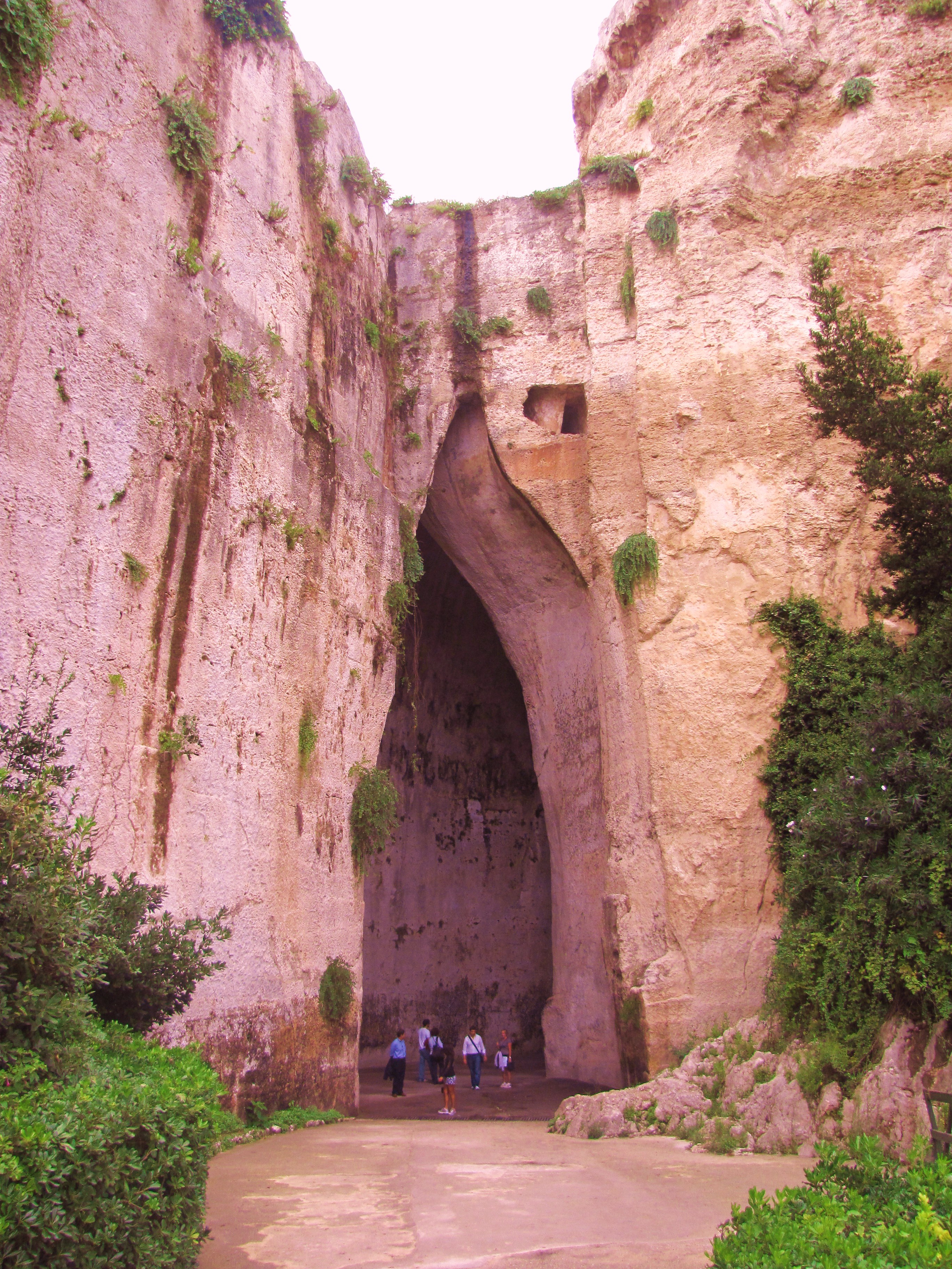 the ear of Dyonisius-Siracusa,Sicily